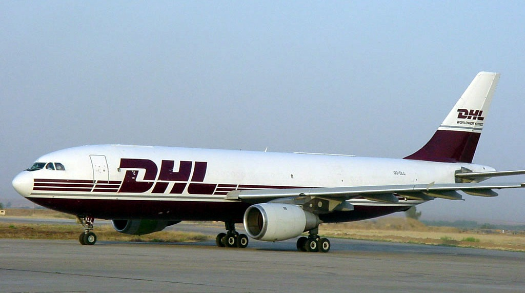 A DHL A300B4-203/F Cargo aircraft arrives in Iraq.